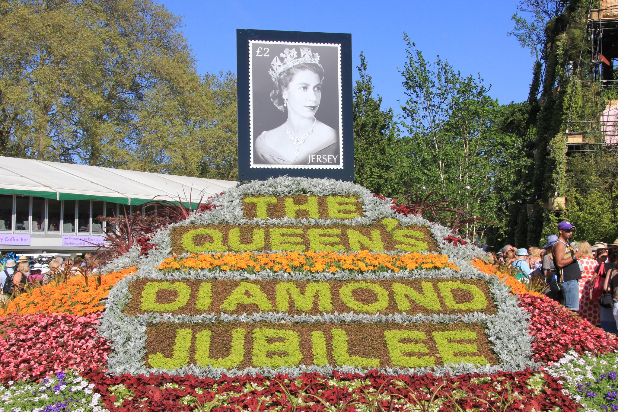 RHS with Parish of St Helier, Jersey. Silver gilt award winner. The Parish of St Helier won a silver-gilt award for their bedding plant display celebrating the Diamond Jubilee. The St Helier team had 16 weeks to prepare for the Chelsea Flower Show after being offered a spot as a late entrant. The Chelsea Flower Show has been held in the grounds of the Chelsea Hospital every year since 1913, apart from gaps during the two World Wars. It used to be Britain’s largest flower show (it has now been overtaken by Hampton Court), but is still the most prestigious. From the beginning it has contained both nursery exhibits and model gardens. Every year there have been exhibits from foreign countries as well as from Britain. It is the flower show most associated with the Royal family, who attend the opening day every year. Whatever you love about gardening, there’s something for you at this year’s RHS Chelsea Flower Show. ‘Fresh’ is a brand new area that includes modern, inventive gardens with new design ideas, along with tradestands offering ingenious new products.